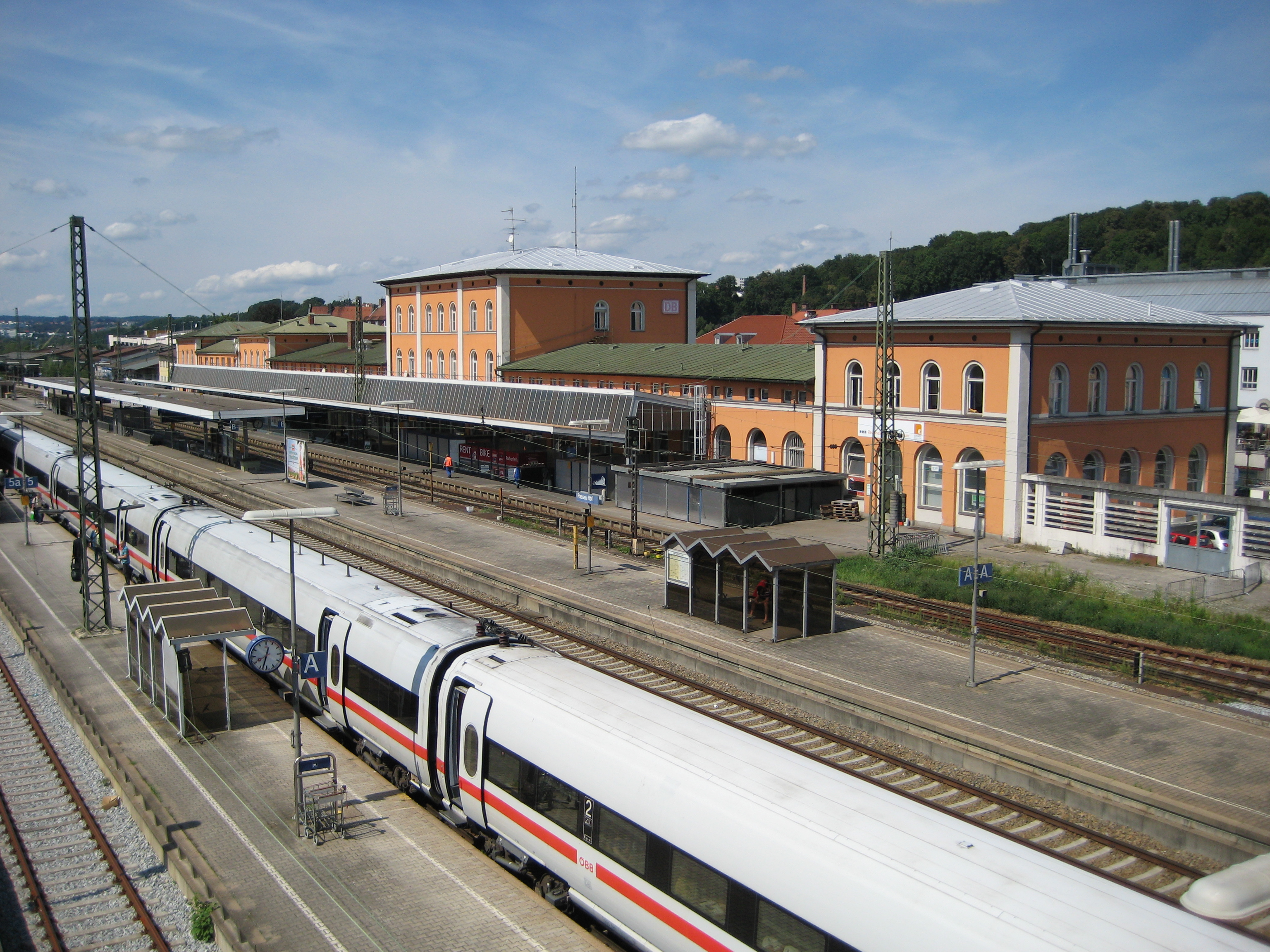 Passau, main station